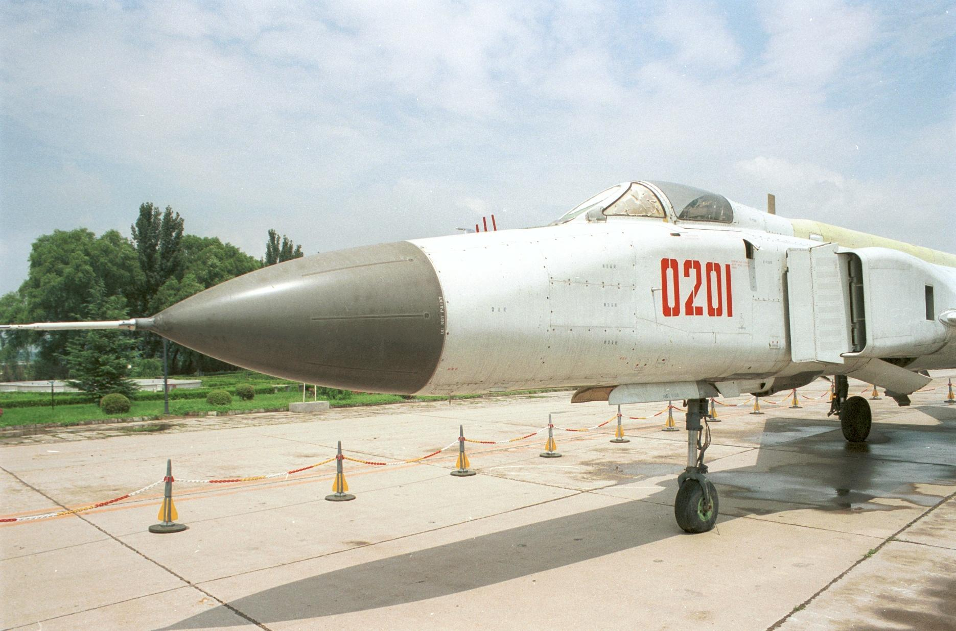 Shenyang J-8B at Datang Shan aviation museum. Picture taken by Olaf Bichel in August 2002.